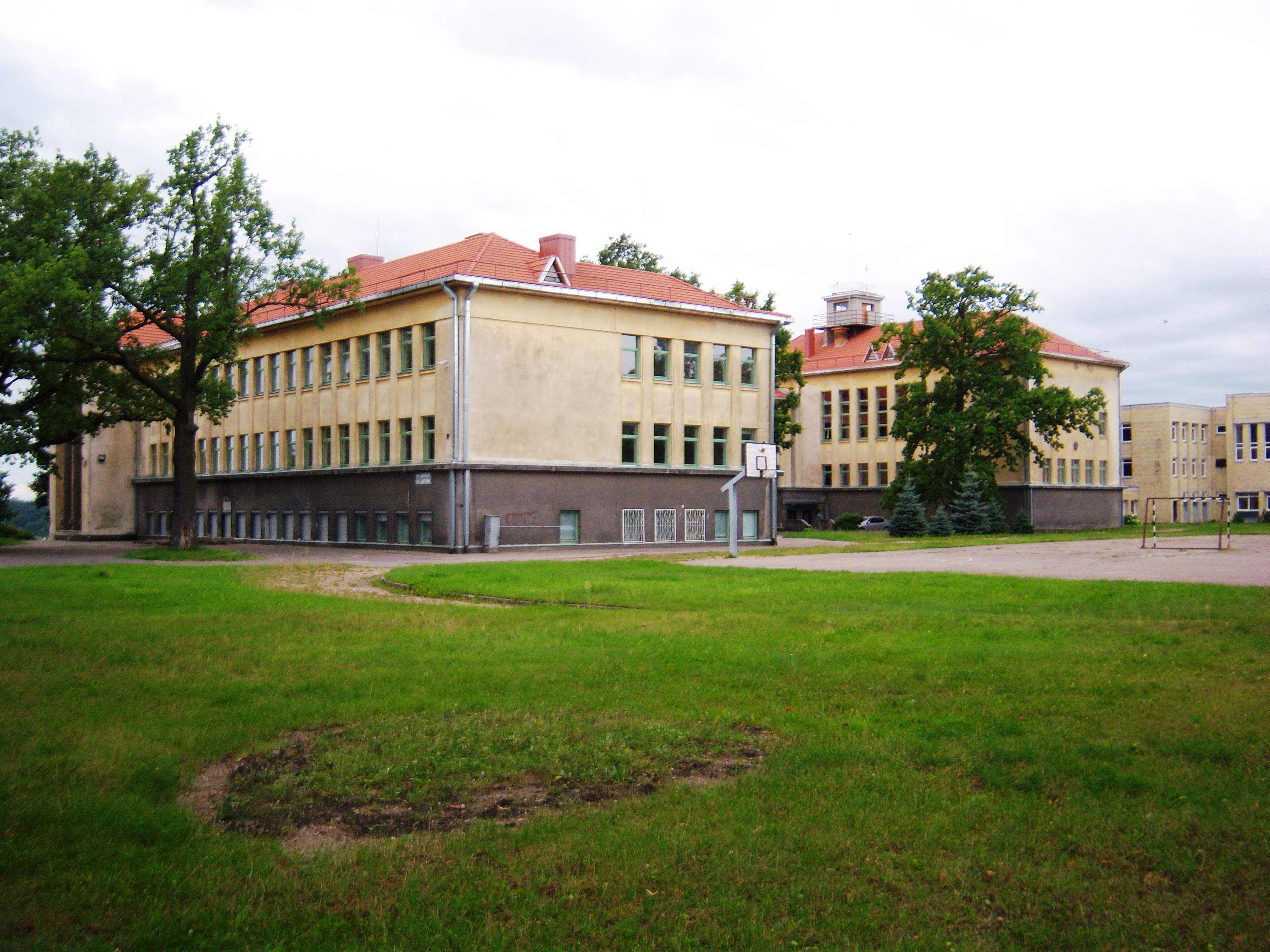 Vaižgantas Secondary School of Kaunas University of Technology, Kaunas, Lithuania